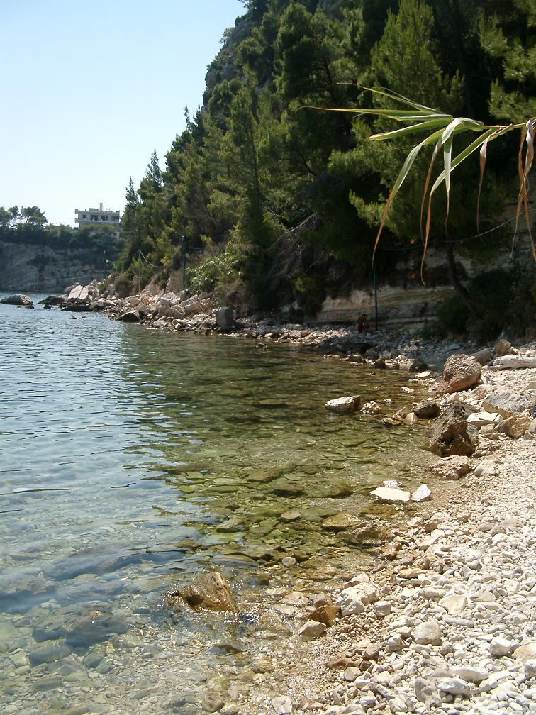 Alonissos - Northern Sporades - Greece